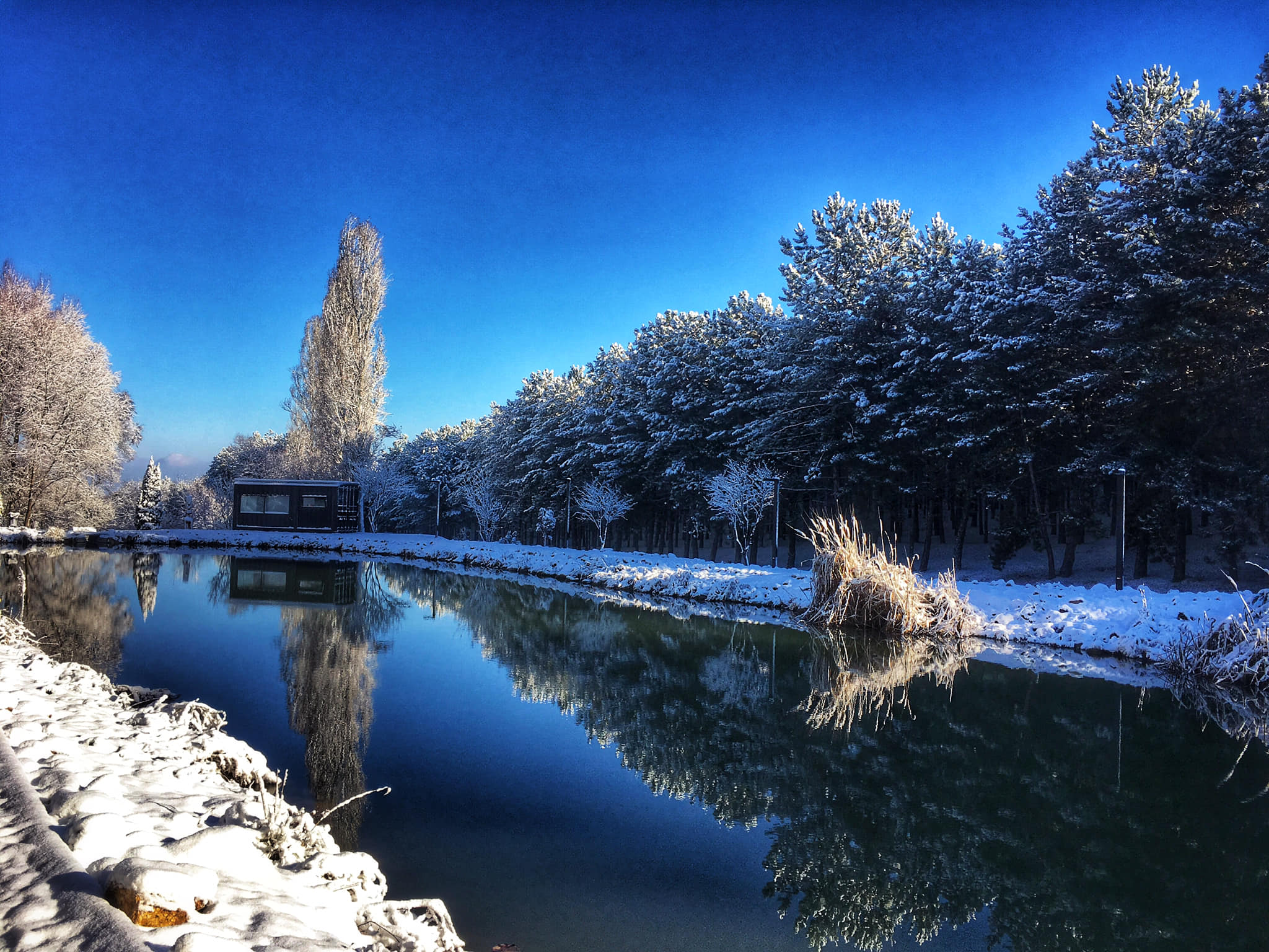 Hacettepe U, Ankara, Turkey